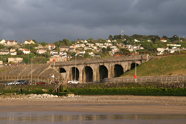 Railway viaduct at the eastern end of Old Colwyn promenade, near to Old Colwyn, Conwy County, Wales.